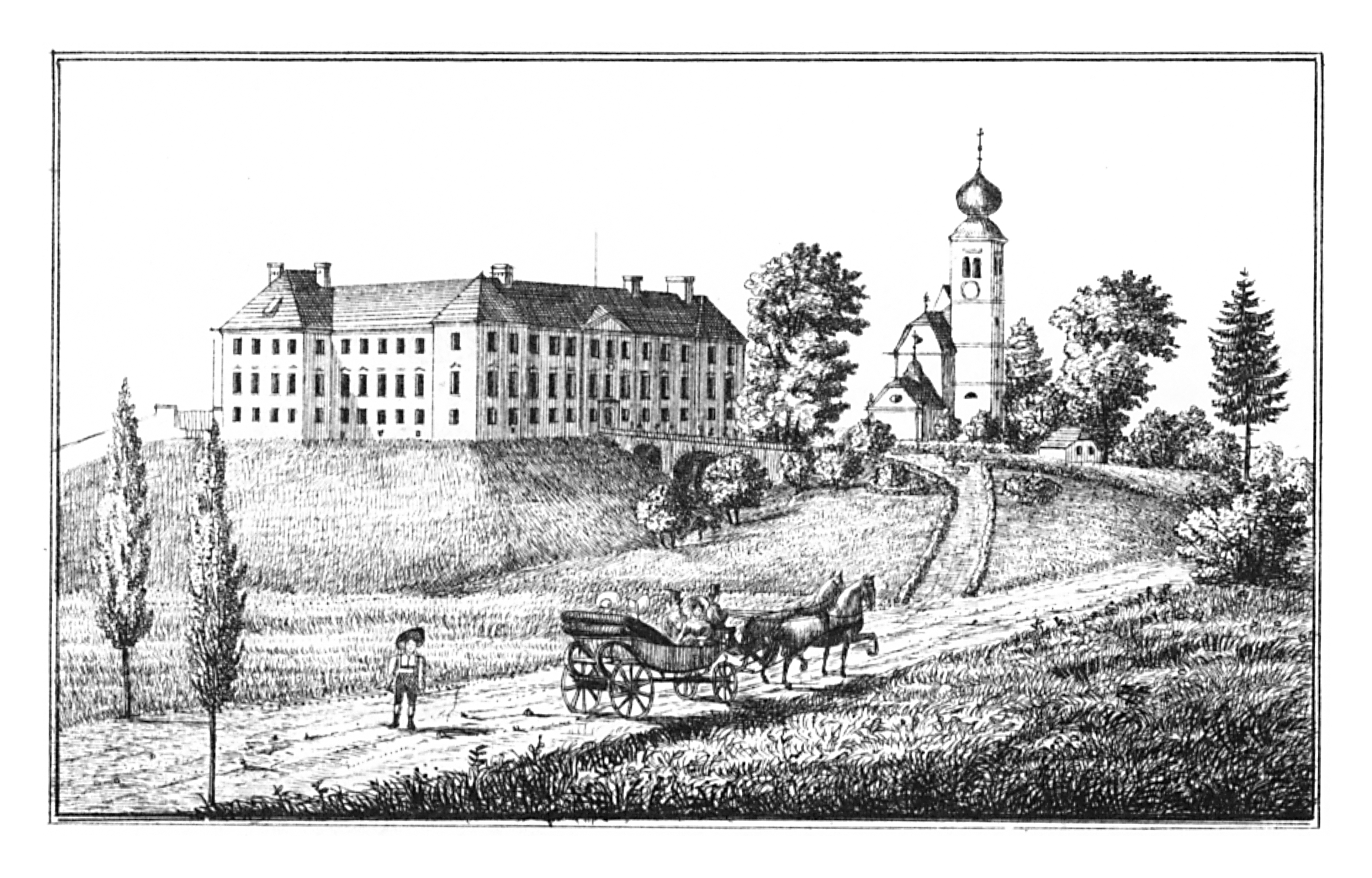 J. F. Kaiser - lithographirte Ansichten der Steyermärkischen Städte, Märkte und Schlösser, Graz 1824-1833 Joseph Franz Kaiser (1786–1859) Alternative names J. F. KaiserDescriptionAustrian printer and editorDate of birth/death 11 March 1786 19 September 1859Location of birth/death Graz (Styria) GrazAuthority control : Q1499963 VIAF: 30629353 ISNI: 0000 0000 3083 0153 LCCN: n87141671 GND: 129880159 NLP: A24960305 WorldCat creator QS:P170,Q1499963 . Scanprojekt Community Projektbudget 2012 This scan or this PDF-file was created within the GLAM-project Bookscanning, supported by Wikimedia Germany and Wikimedia Austria as a part of the community-project to capture books, documents and pictures which are not eligible to copyright or for which the copyright has expired. This document describes or depicts an object which is located in Austria today. Send requests for uncompressed scans to Hubertl. This work is in the public domain in its country of origin and other countries and areas where the copyright term is the author's life plus 100 years or less. You must also include a United States public domain tag to indicate why this work is in the public domain in the United States. This file has been identified as being free of known restrictions under copyright law, including all related and neighboring rights.